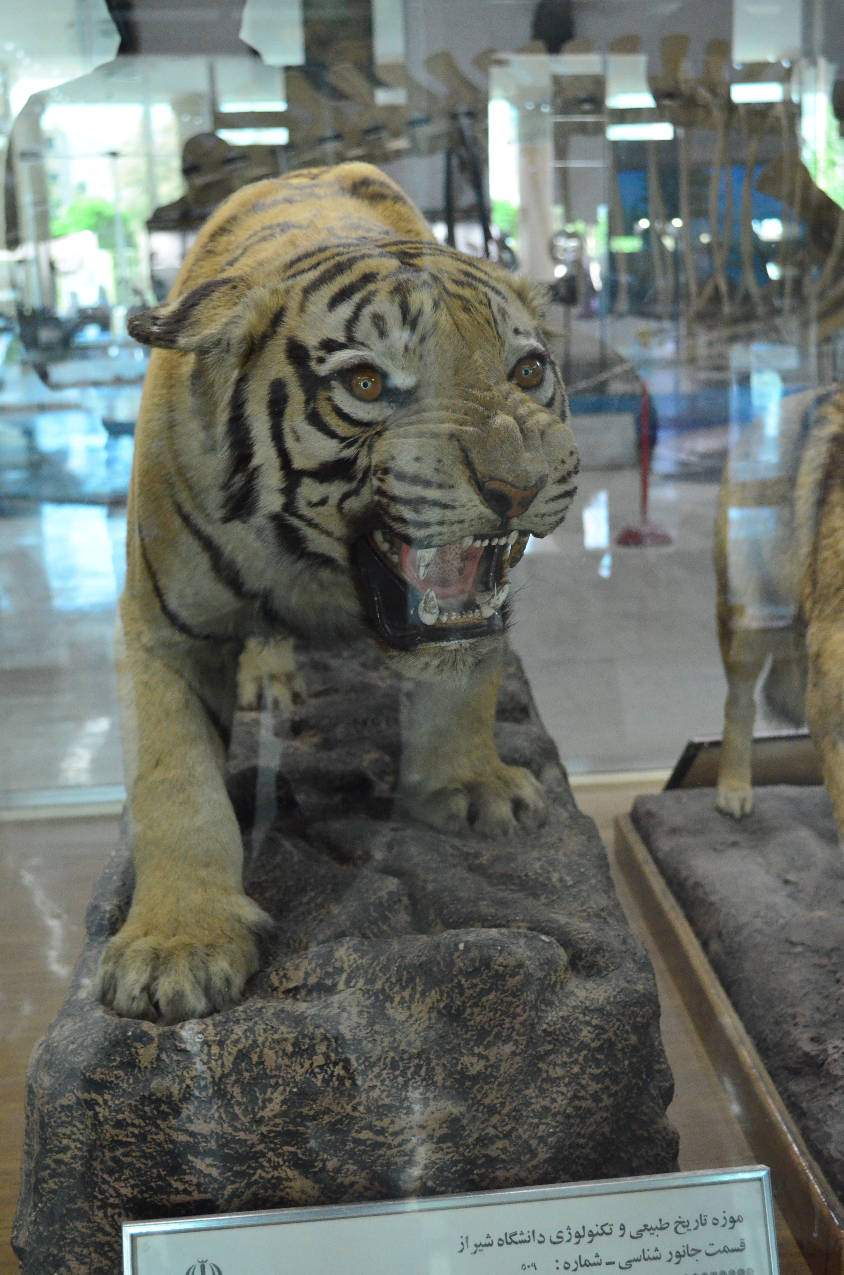 Natural History and Technology Museum of Shiraz University